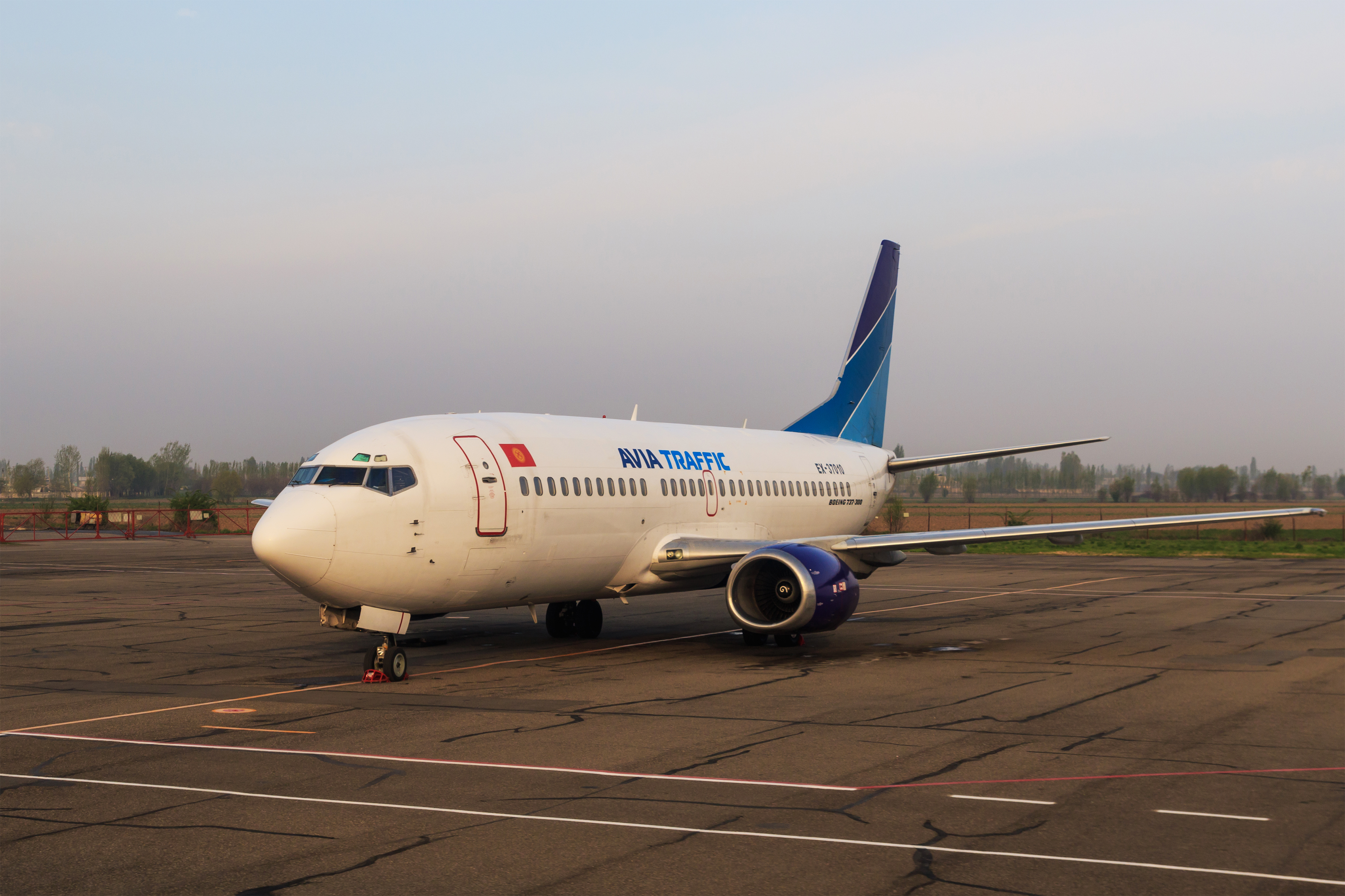 Avia Traffic airplane at Osh Airport, Kyrgyzstan